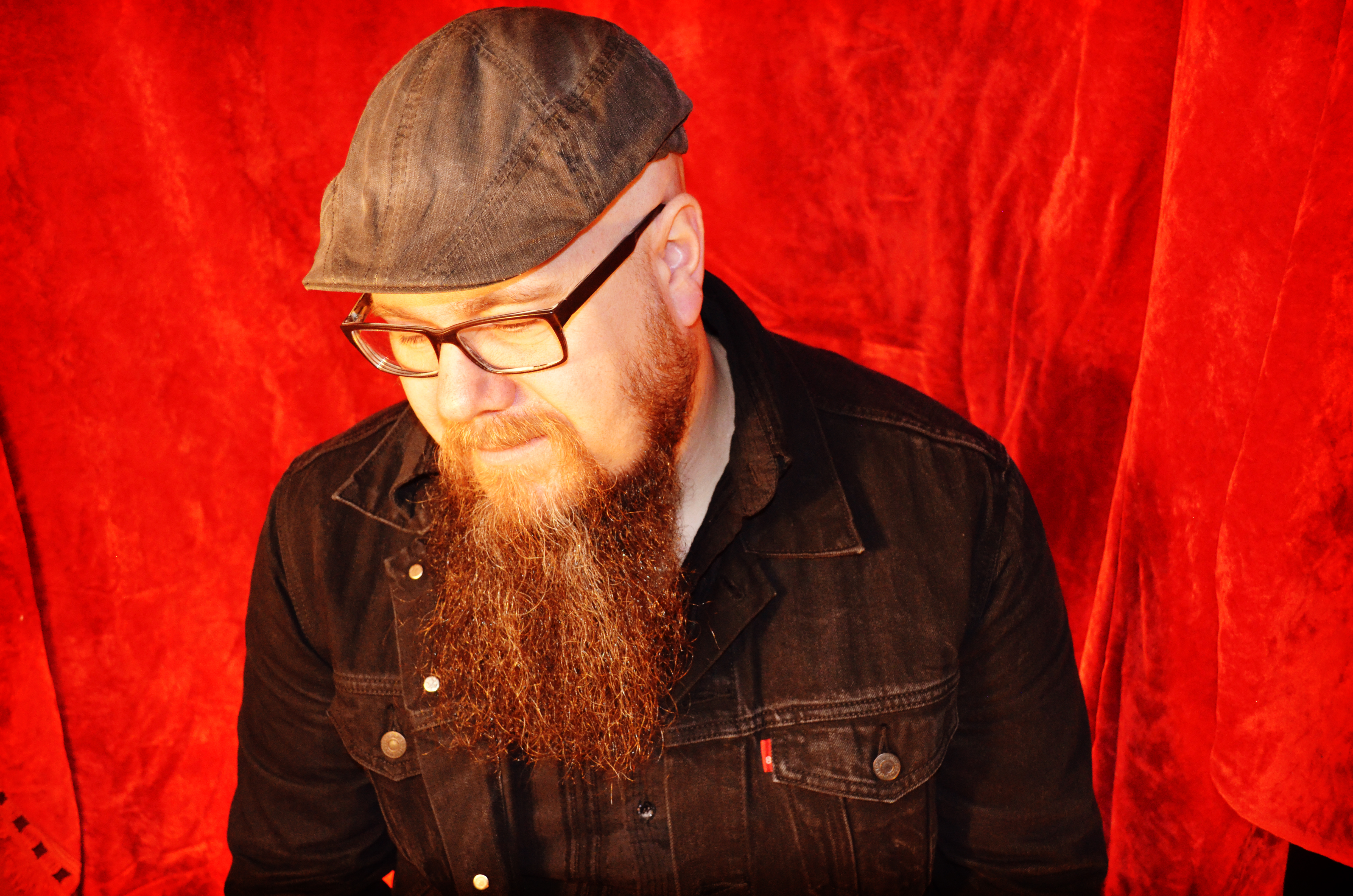 Chris Colepaugh from New Brunswick Canada.